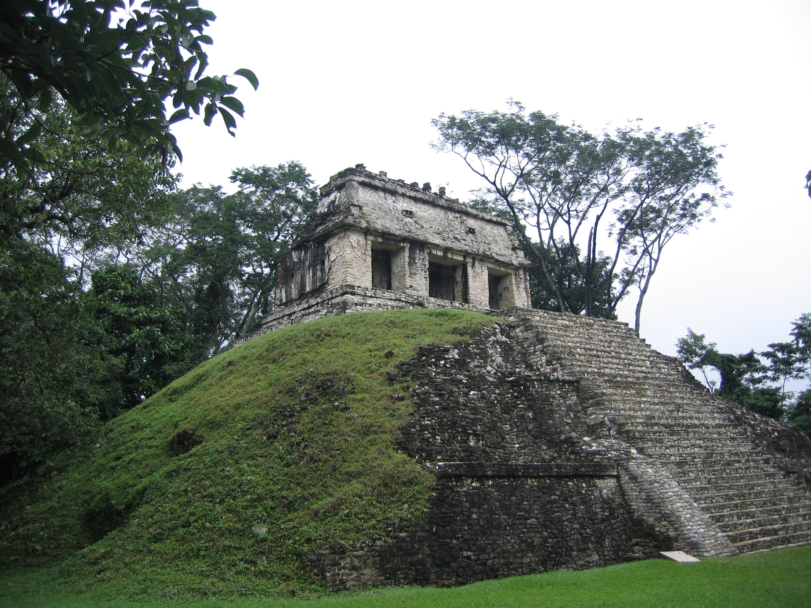 Palenque, Mexico Jan 2007 Own work